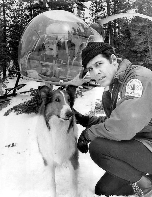 Photo of Jed Allan and Lassie from the television program Lassie. A Bell Model 47G helicopter is visible in the background.